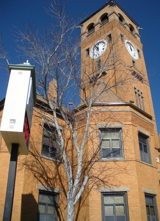 This is a picture of the Macon County Courthouse located in Tuskegee, Alabama.